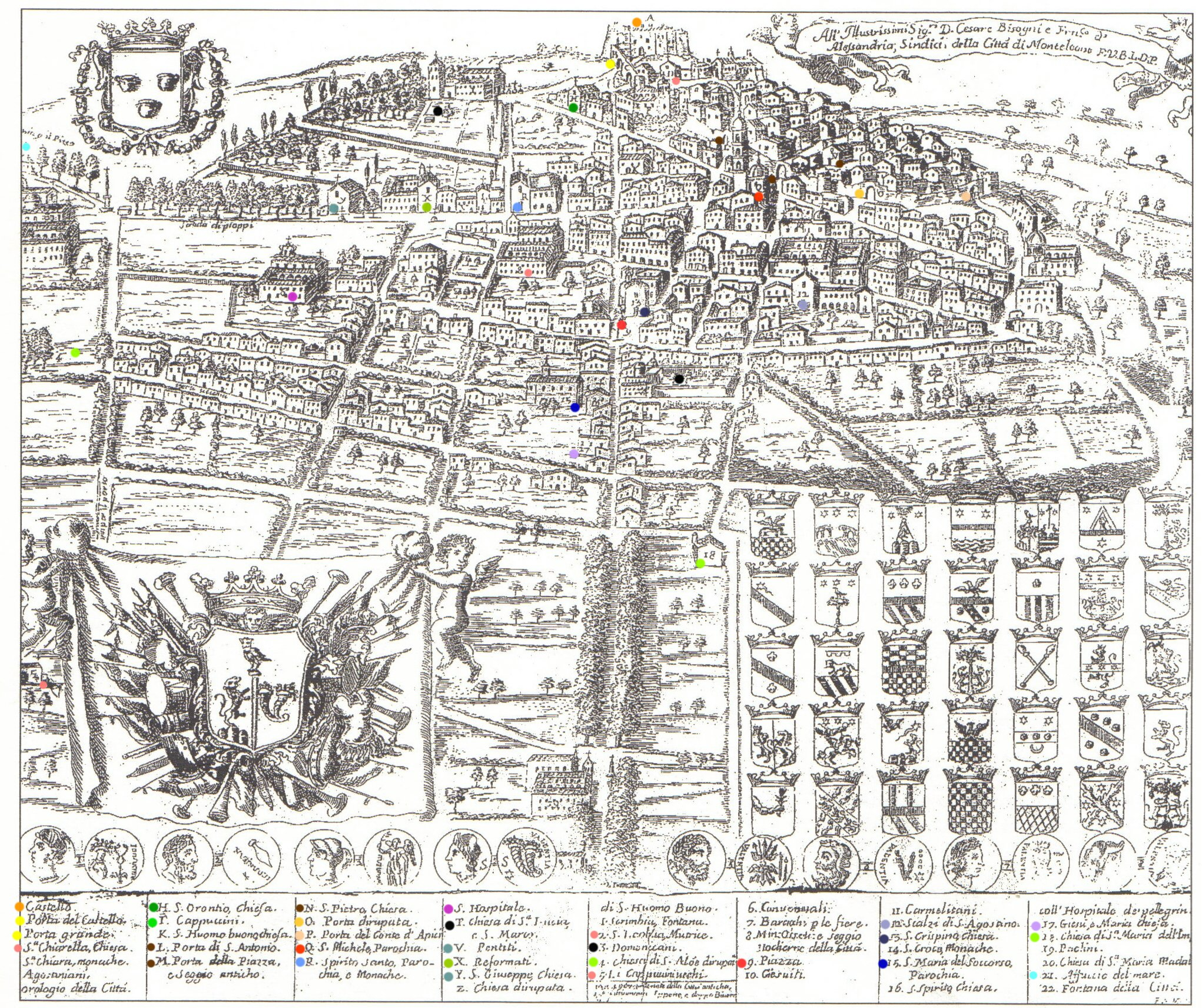 map of Vibo Valentia 1710